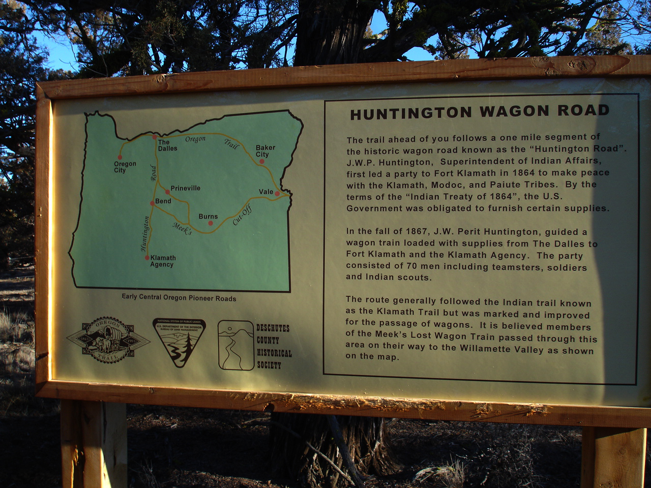 Our tour covers a one-mile out-and-back trail- a remnant of early Oregon settlement right in Bend, Oregon's backyard. Want to take a trip back in to Oregon’s fascinating history? Well, then the Huntington Wagon Road is just the place for you! The Huntington Wagon Road trail is short segment of trail (1.2 miles) within the larger Wagon Roads Area of Critical Environmental Concern (ACEC). The road was constructed by J. W. P. Huntington in 1867 as a means of delivering materials promised by the US Government to the Klamath Indian Agency. Stretching from The Dalles, Oregon, to near present-day Fort Klamath, Oregon, the wagon road once stretched over one hundred miles in length. The Huntington Wagon Road Trail represents one of the few remaining visible road remnants which are legally accessible to the general public. Some artifacts may be viewed at the Des Chutes Historical Museum in nearby Bend, Oregon. Interpretive signs and benches are located along this out-and-back trail. To get to this super-cool slice of Oregon’s history just follow these instructions: From Bend, Oregon, travel north approximately 7 miles on US highway 97. Take the Deschutes Market Road exit, turning slightly right on Pleasant Ridge Road. Take the 1st right onto Graystone Lane, then take the 1st left onto Deschutes Market Road. Take the 2nd left onto Dale Road. Turn right on McGrath Road and proceed 1.2 miles. The trailhead is on the right. Trailhead coordinates: 44.1365670, -121.2234910 More information on the Huntington Wagon Road is available online at